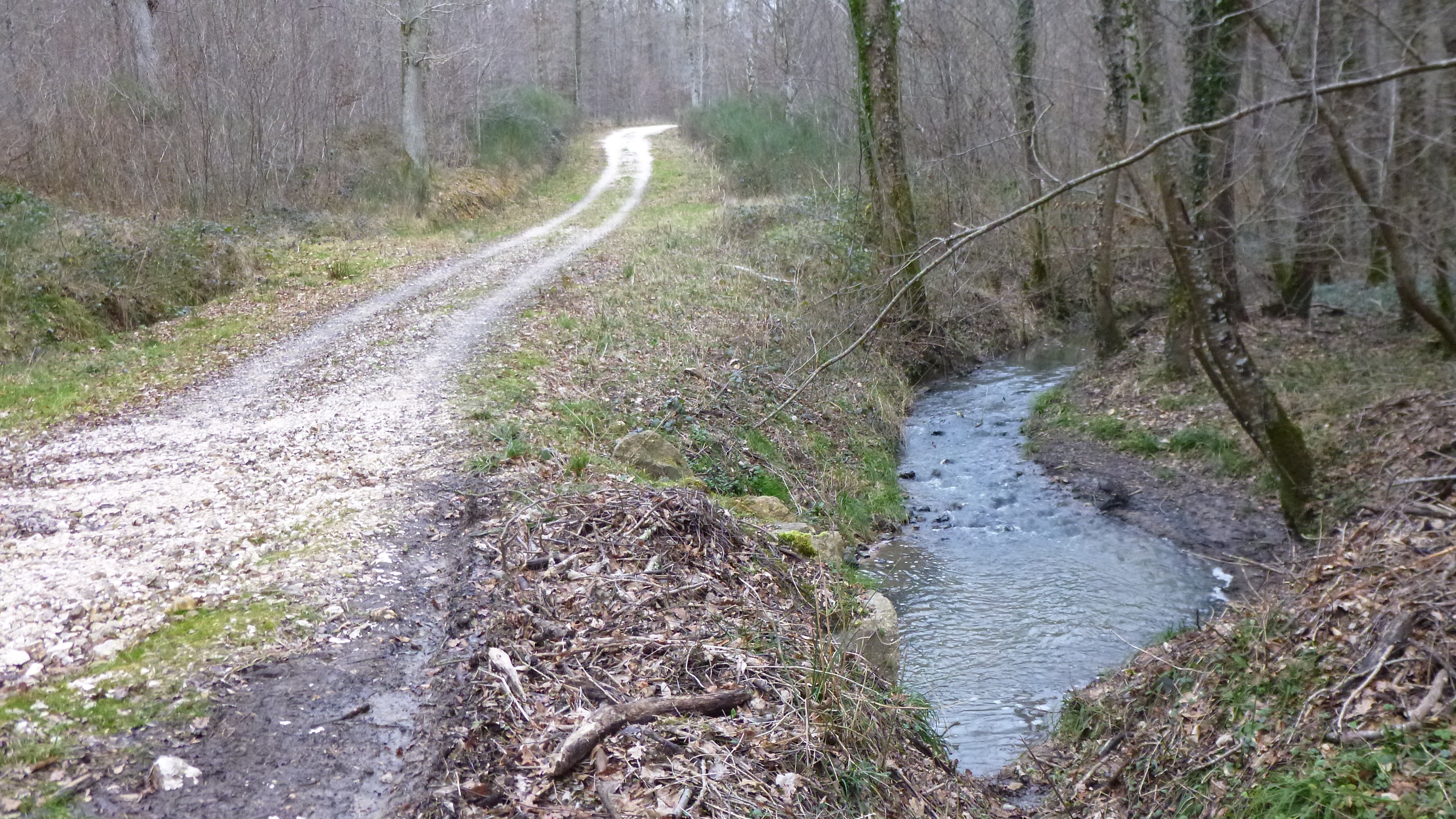 Perreux, Yonne, Burgundy, France. Fifth branch of the ru des Pierres (before it gets officially called 'ru des Pierres', see the French wikipédia article on the Péruseau. Here coming from the étang de la Culotte and out of the bois de Glatigny where that pond lays about 900 meters away. Looking upstream towards the north-east, the wood and the étang de la Culotte (not seen from here).